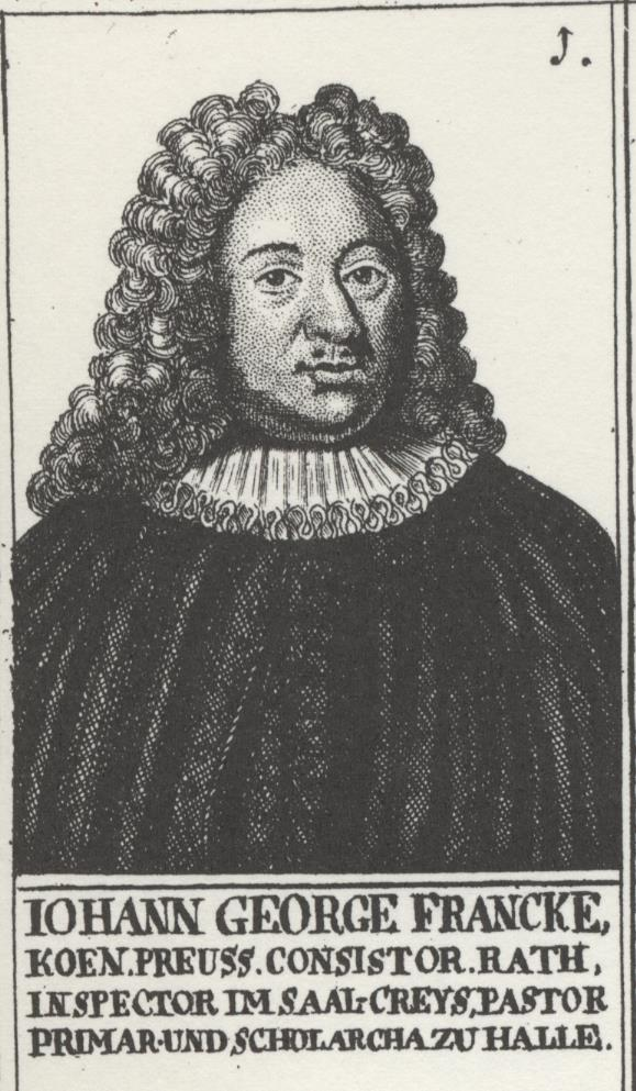 Portrait: Johann Georg Franck